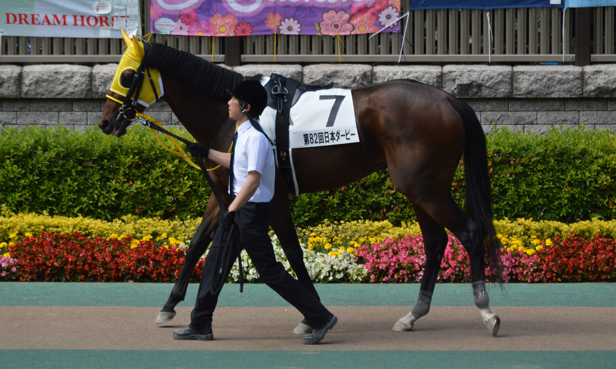 Japanese race horse Reve Mistral at Tokyo racecourse. Tokyo (JPN) 31 May 2015 Tokyo Yushun (Japanese Derby) (Grade 1) (3yo Colts & Fillies) (Turf) 1m4f Firm RankHorse NameOddsAgeWgtTrainerJockey1stDuramente (JPN)9/10FC39-0Noriyuki HoriMirco Demuro2ndSatono Rasen (JPN)117/10C39-0Yasutoshi IkeeYasunari Iwata3rdSatono Crown (JPN)53/10C39-0Noriyuki HoriChristophe-Patrice Lemaire5th - 8th/omission9thReve Mistral (JPN)152/10C39-0Hiroyoshi MatsudaYuga Kawada